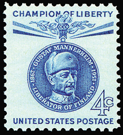 Gustaf Mannerheim on a US postage stamp